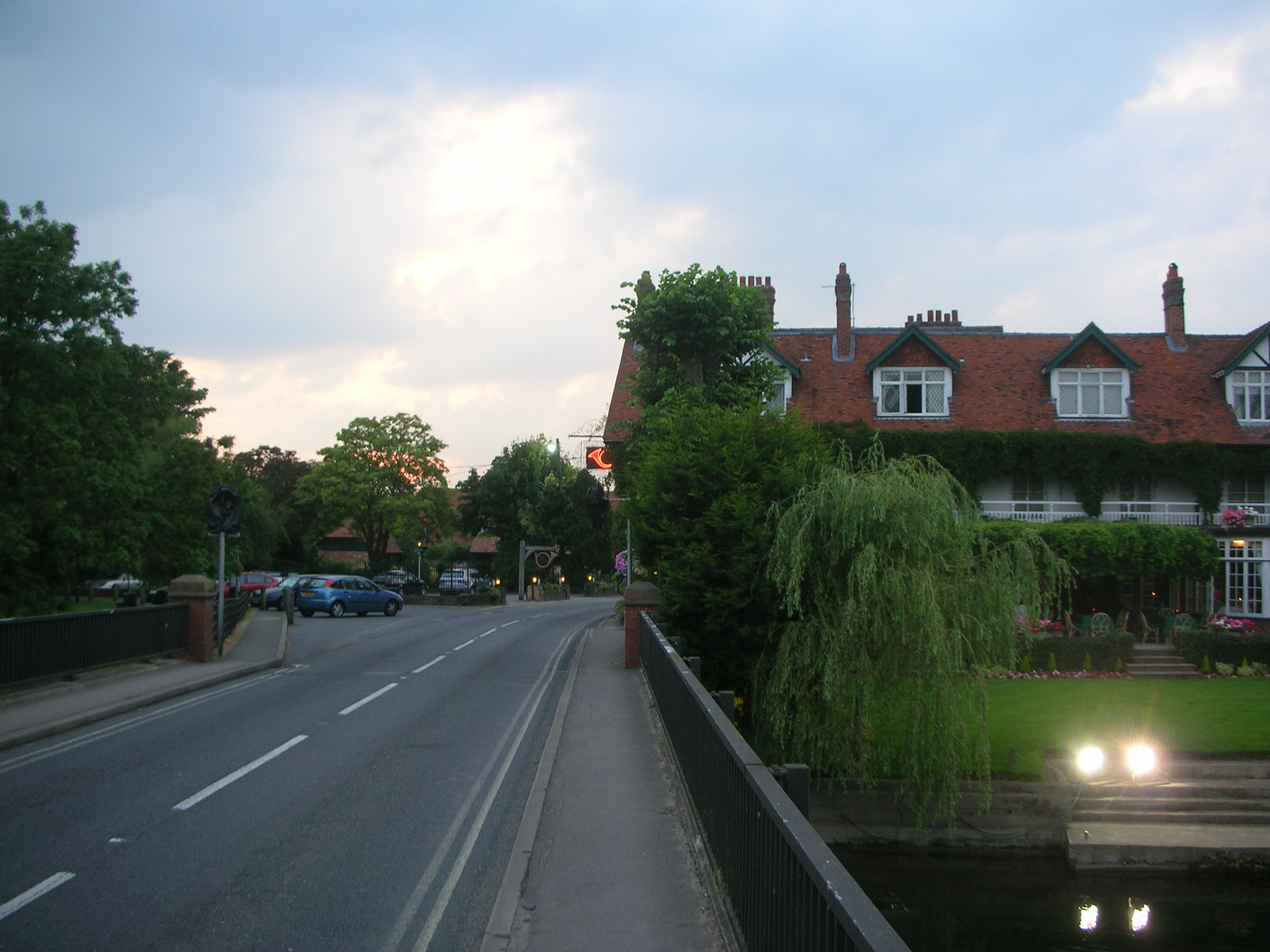 View of the French Horn hotel from the main Sonning Backwater Bridge at Sonning Eye, south Oxfordshire, England.